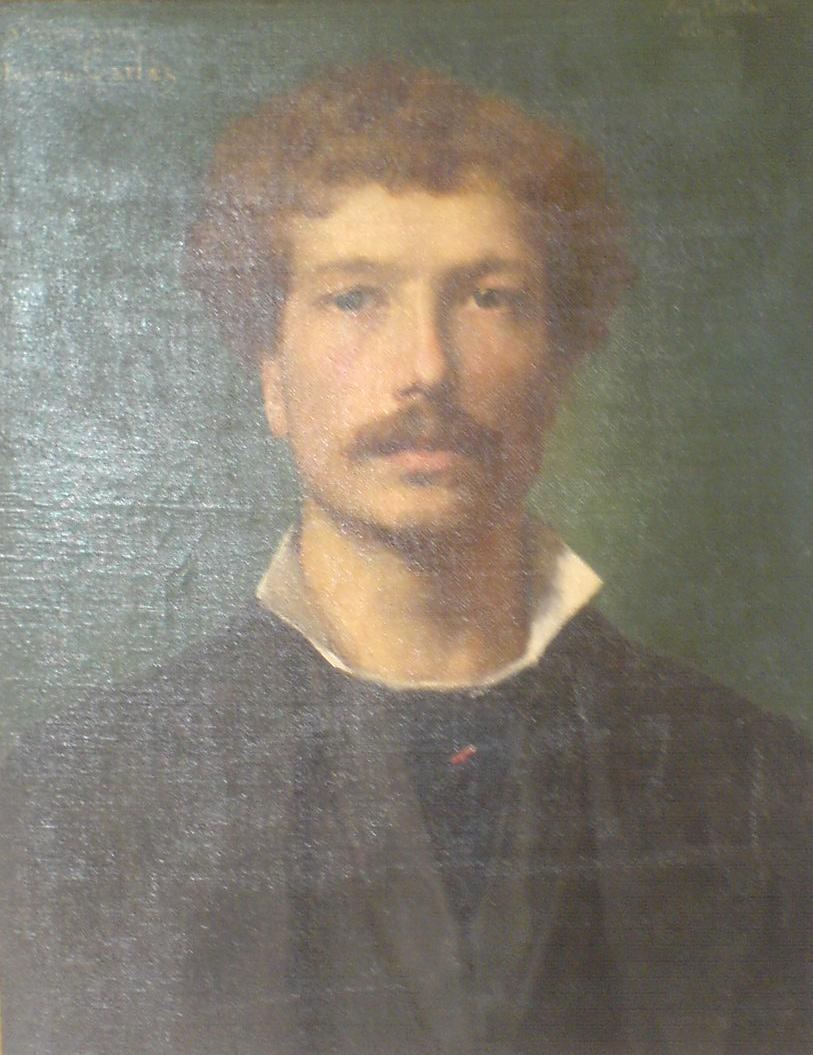 Portrait of the sculptor Antonin Carles by the painter Armand Berton (1854-1927)